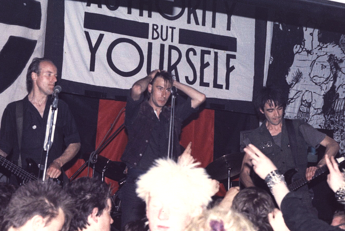 Crass at the Cleatormoor Civic Hall, UK, 3 May 1984. Photo by Trunt. Left to right: Pete Wright (bass), Steve Ignorant (vocals), N.A. Palmer (guitar).